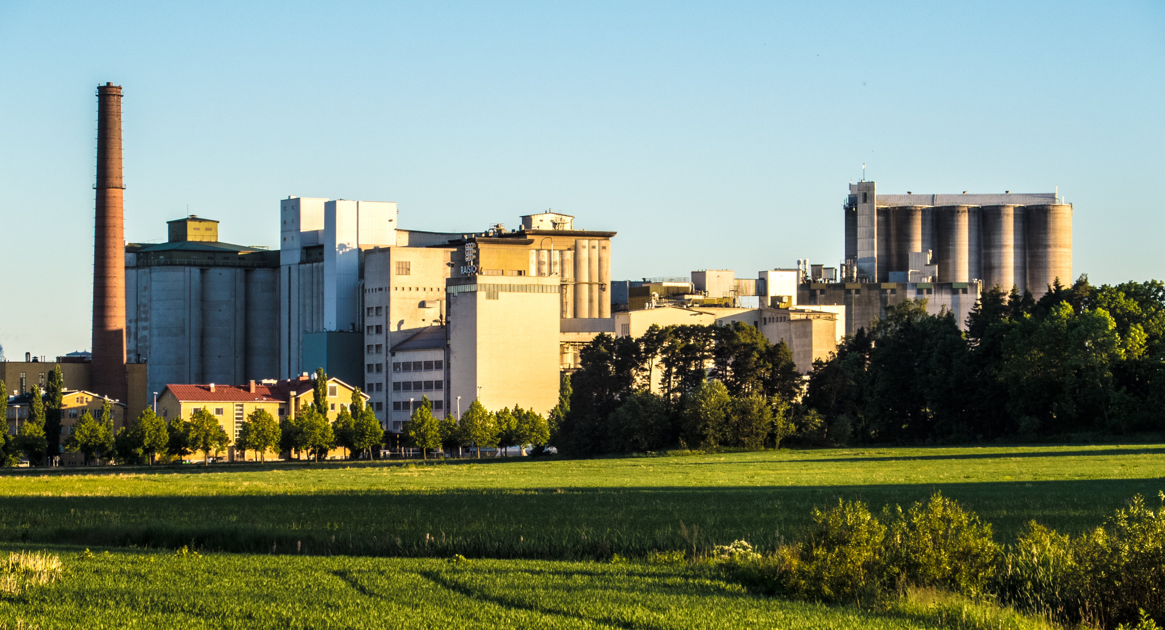 Raision Tehtaat Oyj factories in Raisio, Finland, seen from Raisionkaari street, late evening, June 2014.